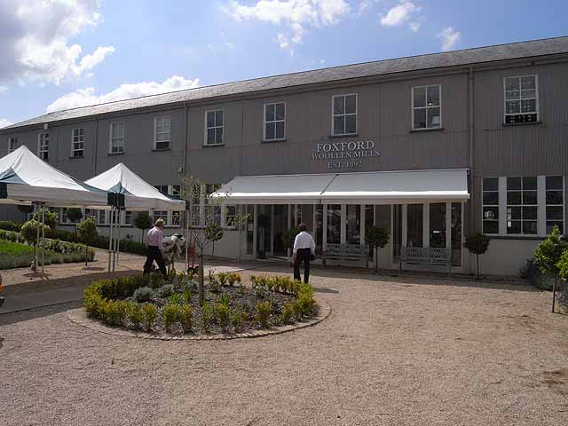 Foxford Woollen Mills Incorporating a high-class shop, restaurant and visitor centre.